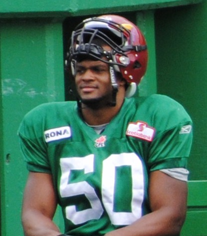 Jerrell Freeman during a Saskatchewan Roughriders practice.